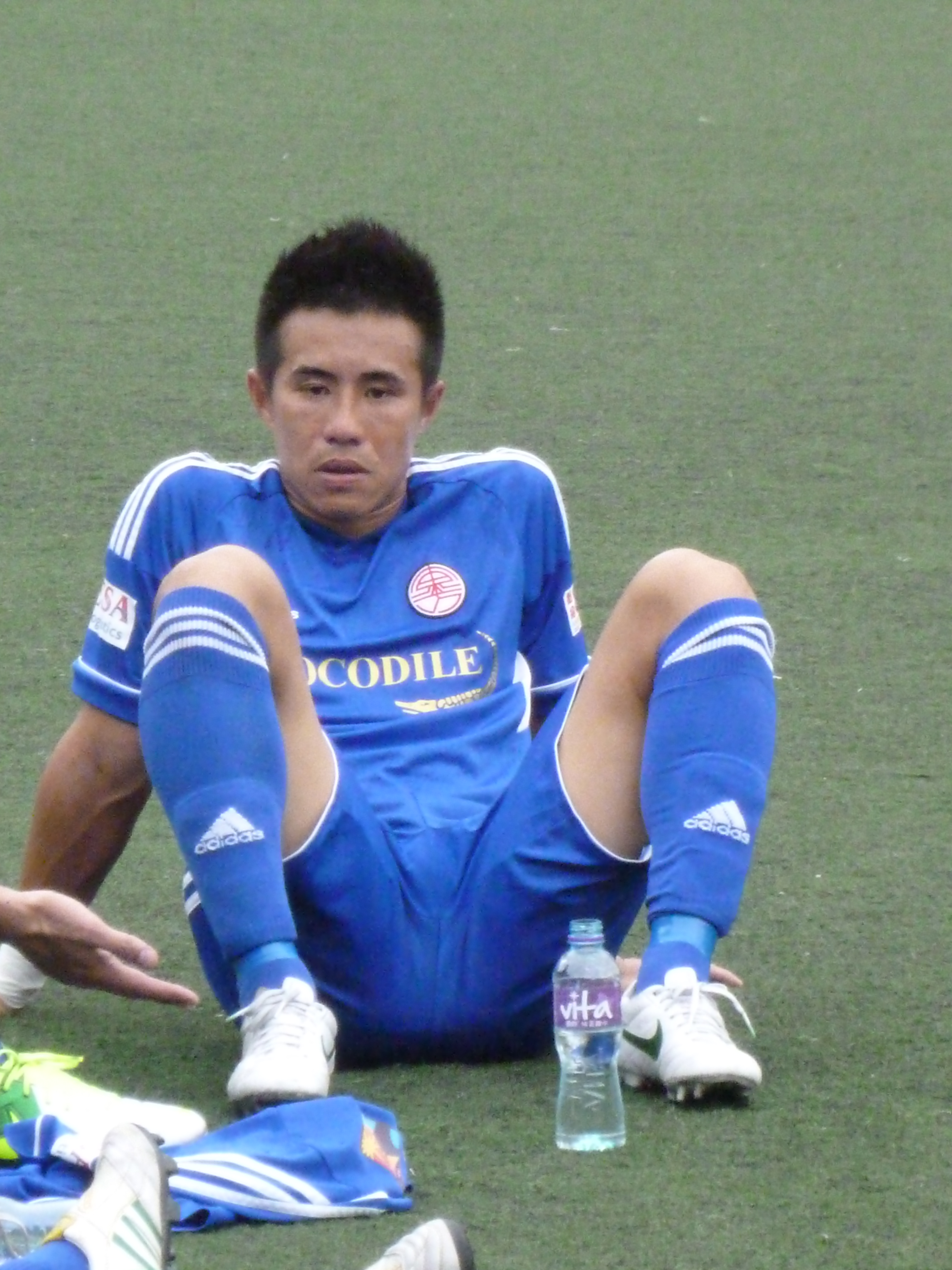 Leung Chi Wing (28 Apr 2013, Hong Kong 2nd Division League, Eastern vs Tai Chung, Ma On Shan Recreation Ground) 中文（香港）: 梁志榮 (28 Apr 2013, 香港乙組足球聯賽, 東方 vs 大中, 馬鞍山遊樂場)